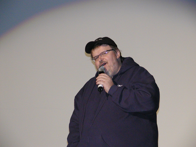 Michael Moore speaking at the Traverse City film festival on July 28, 2005